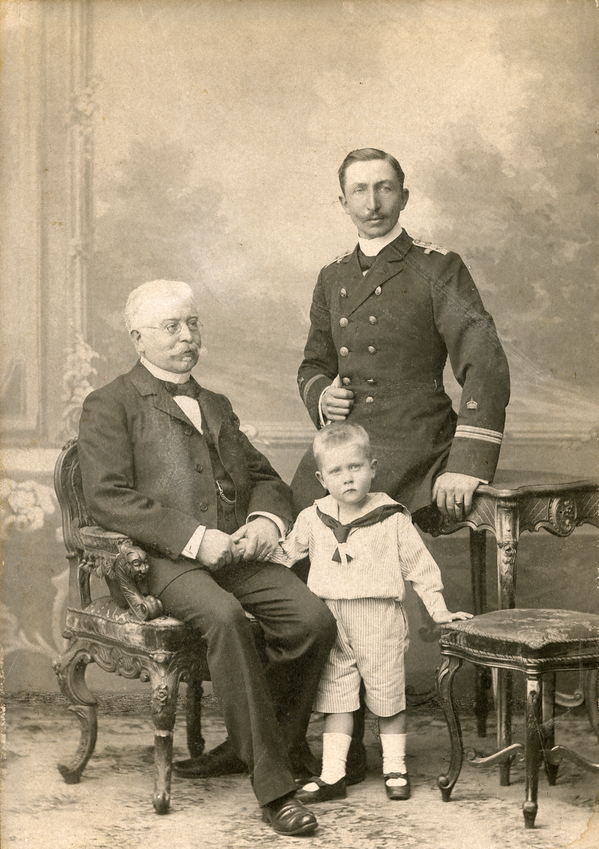 Friedrich Viktor Hubert v. Kühlwetter born 6.5.1836 in Düsseldorf, died 20.04.1904, his son Friedrich Felix Maria Hubert v. Kühlwetter 20.11.1865 - 9.1.1931 and his eldest grandson Friedrich Hubert Maria Sydney v. Kühlwetter 21.10.1894 - 1978 Photo taken around 1898.